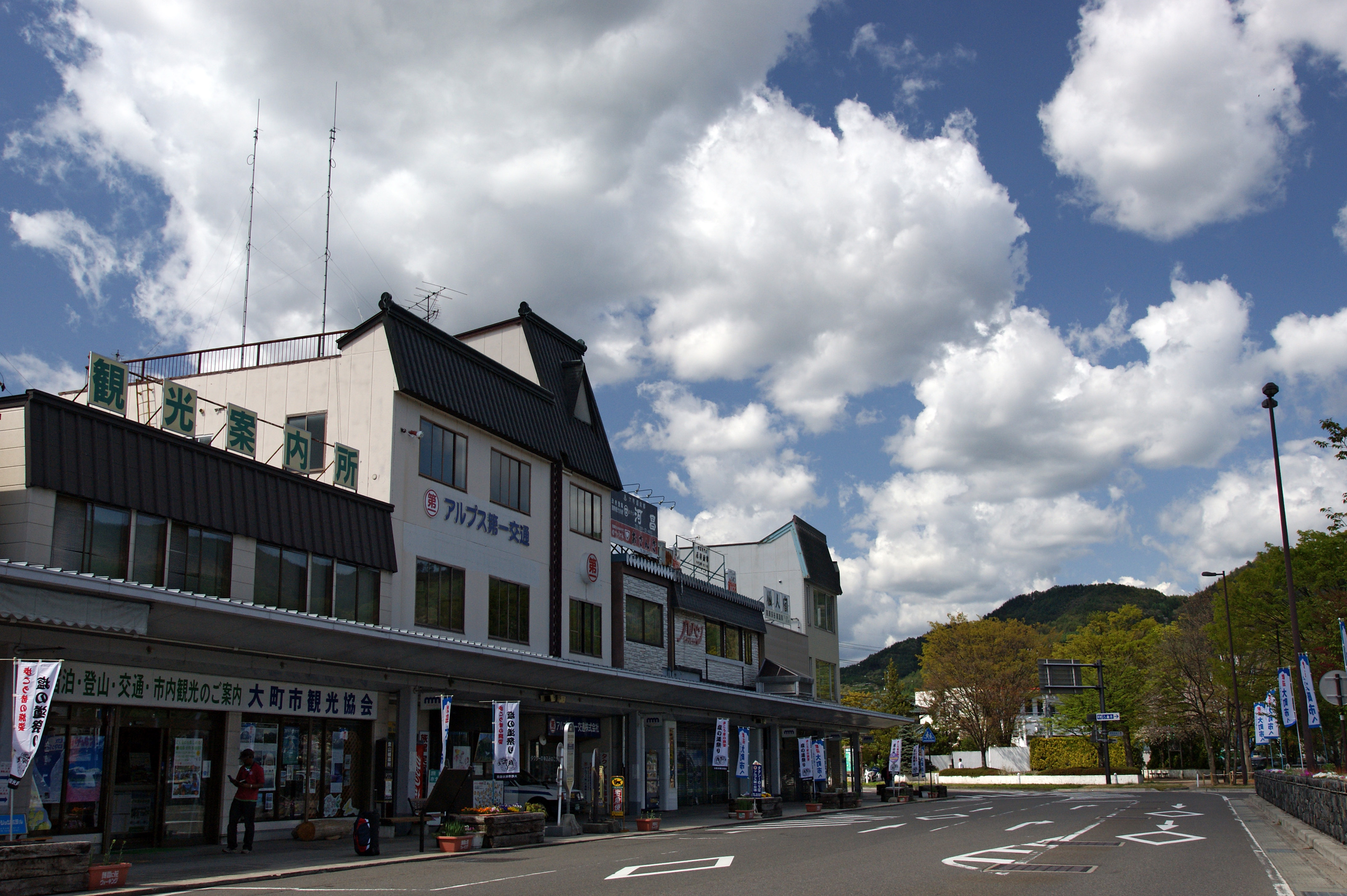 In front of Shinano-Ōmachi Station in Ōmachi, Nagano prefecture, Japan